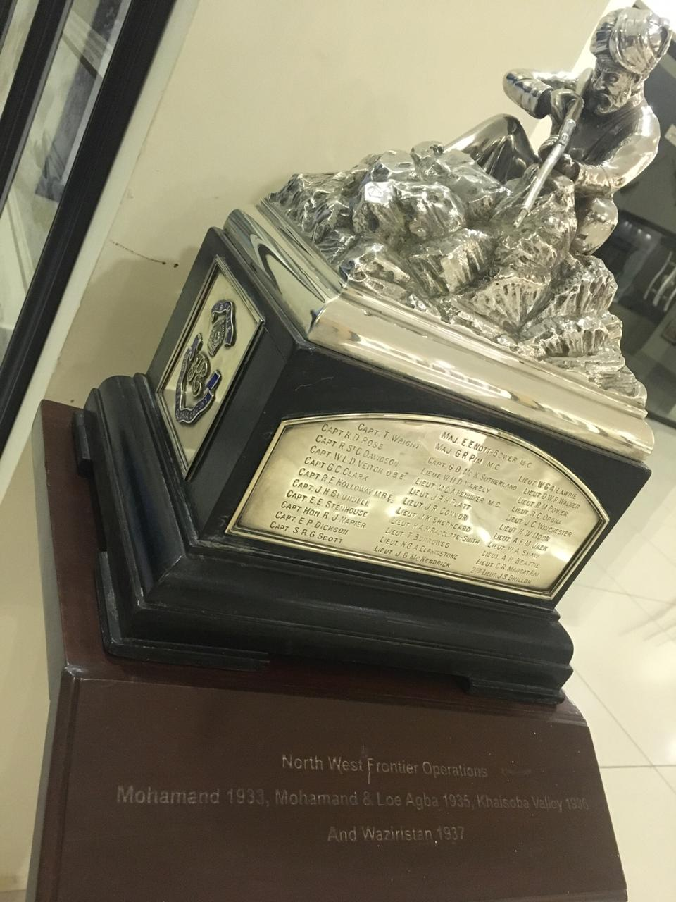 Souvenir depicting a tribesman famous for their marksmanship and inflicted heavy causalities to the troops invading Indian Afghan Frontier, Presented by Officers of Royal Engineers who participated in the North West Frontier Operations of Mohmand-1933, khaisoba-1935 and Waziristan-1937 of the British India. Inscribed names of the Officers can clearly be seen on the souvenir which is present at the Engineers Officers Mess Risalpoor KPK Pakistan.